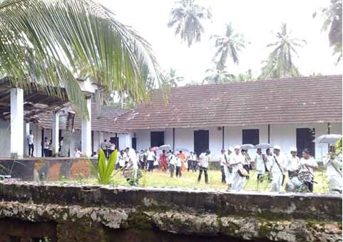 St.Georges High School Thozhiyoor